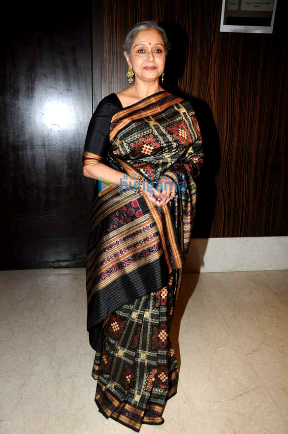 Beena Banerjee at Success bash of TV serial 'Uttaran'